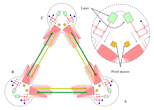 lisa measurement technique